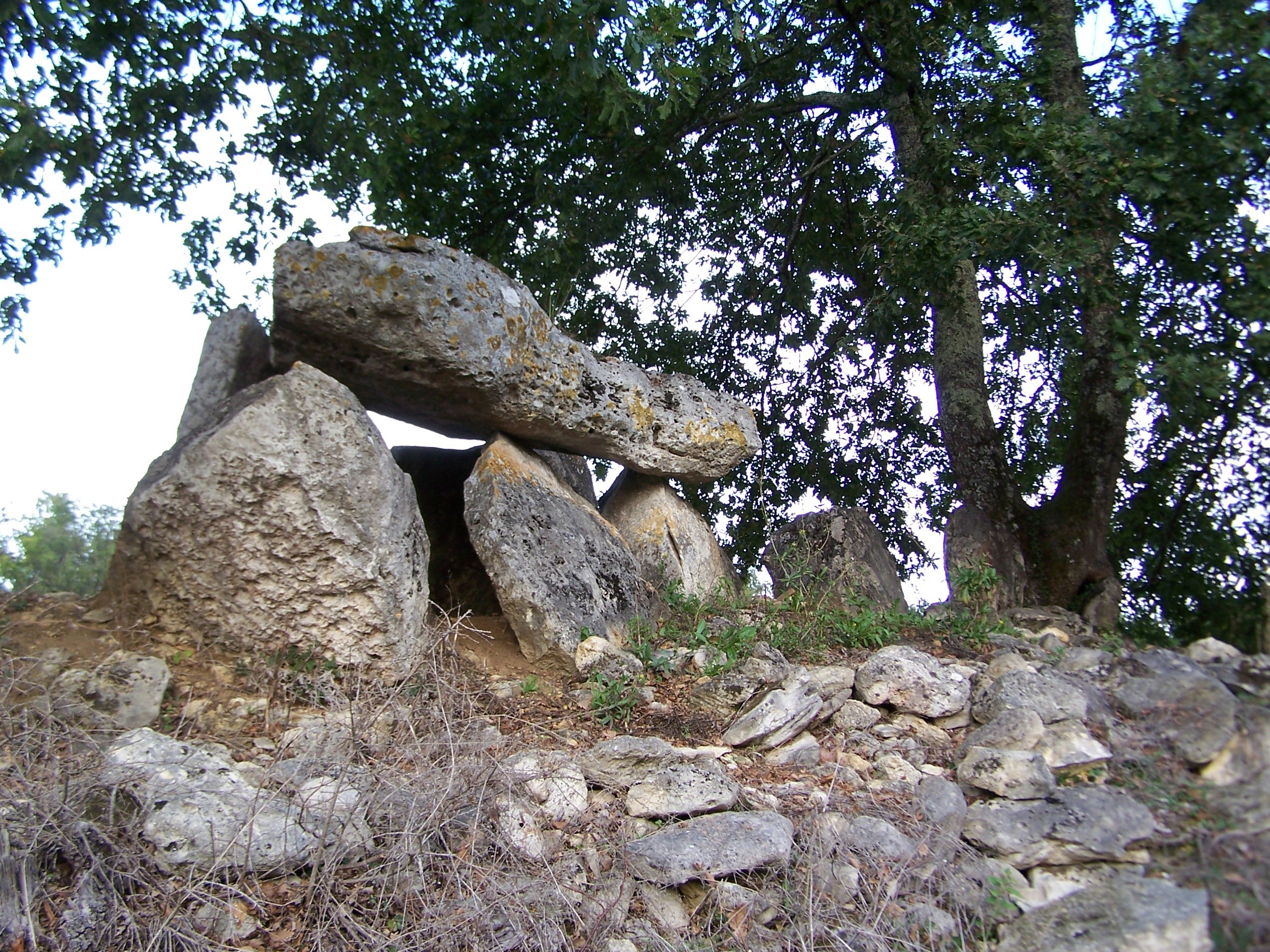 Dolmen of Curton in Jugazan (Gironde, France)